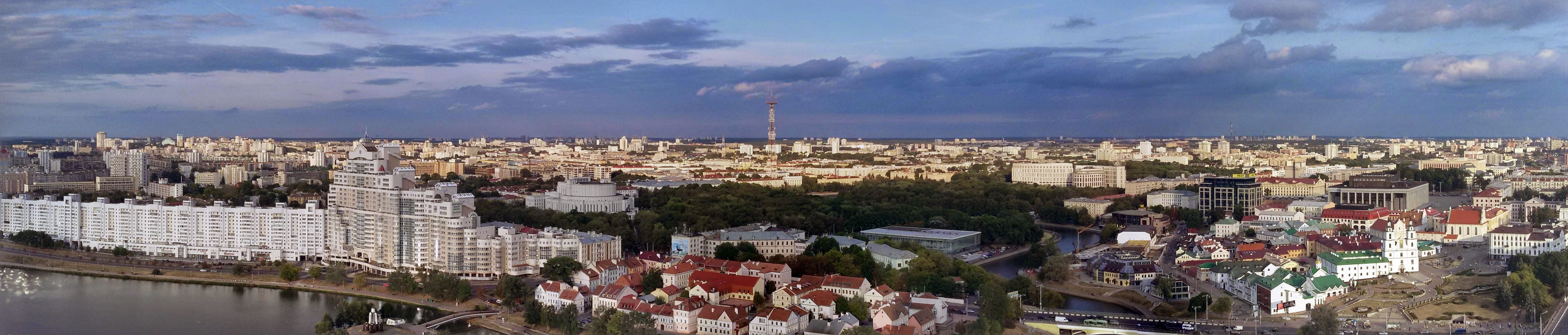 Minsk. A view of the Svislach river and Upper Town